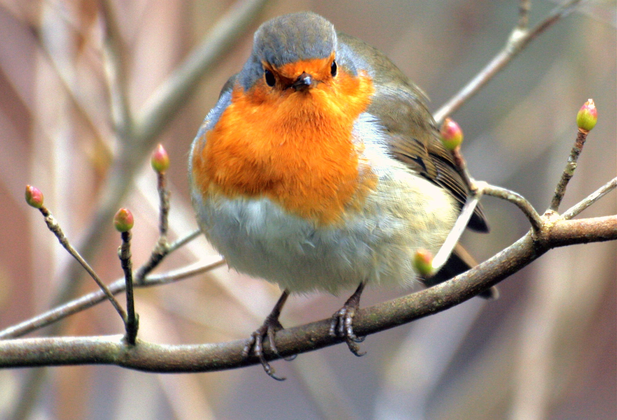 Highest Explore Position #432 ~ On December 29th 2007...Justice has been done..lol..:O) Botanical Gardens - Robin - Brest, Brittany, France - Monday 24th December 2007. Somebody doesn't seem pleased to see me..lol..:O) He's Officially Mad now..Cause some Numpty, no mark Scottish Robin just beat him into Explore...with nowhere near his pedigree of Talent!!!! Grrrr!!!..Who's working that Explore Machine...I wanna word..lol..:O)